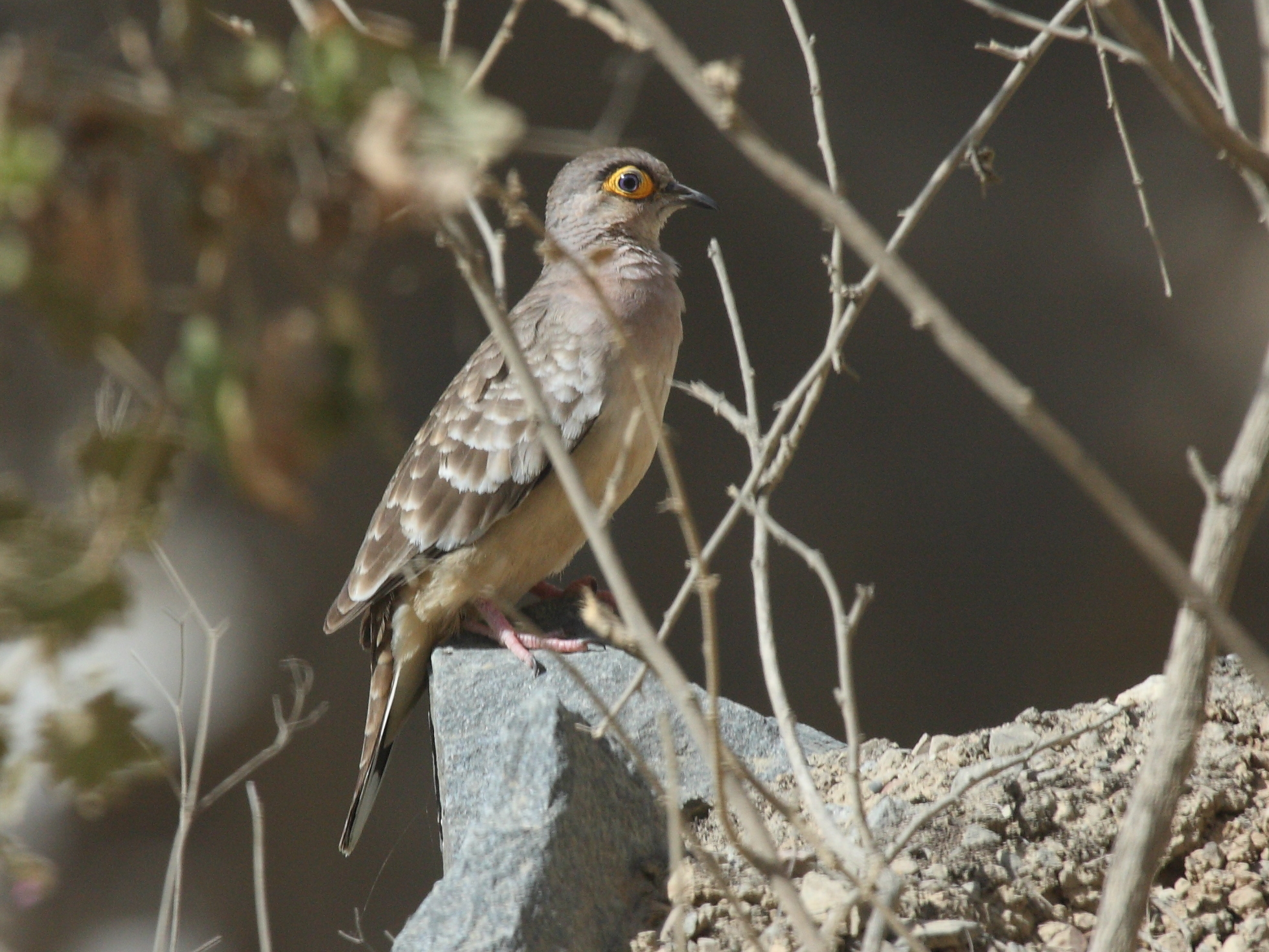 Bare-faced Ground-Dove (Metriopelia ceciliae) in Peru